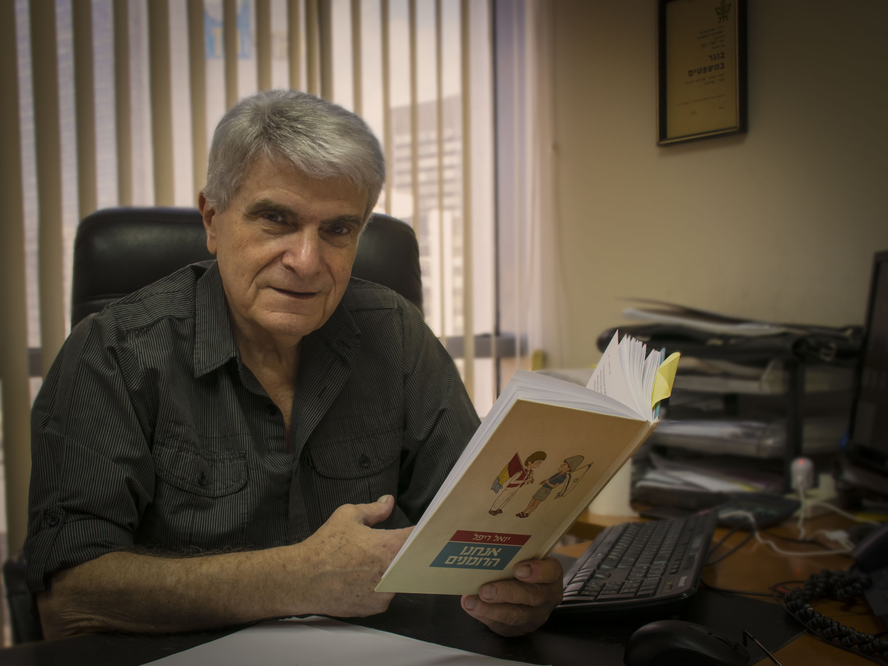 Yoel Rippel